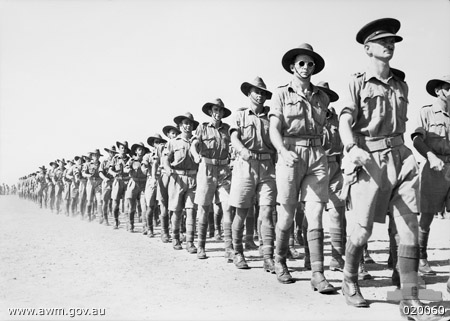 AWM Caption: : THE 2/2ND INFANTRY BATTALION DURING THE REVIEW BY MAJOR-GENERAL SIR I.G. MACKAY, GENERAL-OFFICER-COMMANDING, 6TH DIVISION, BEFORE HIS DEPARTURE FROM THE MIDDLE EAST FOR AUSTRALIA.